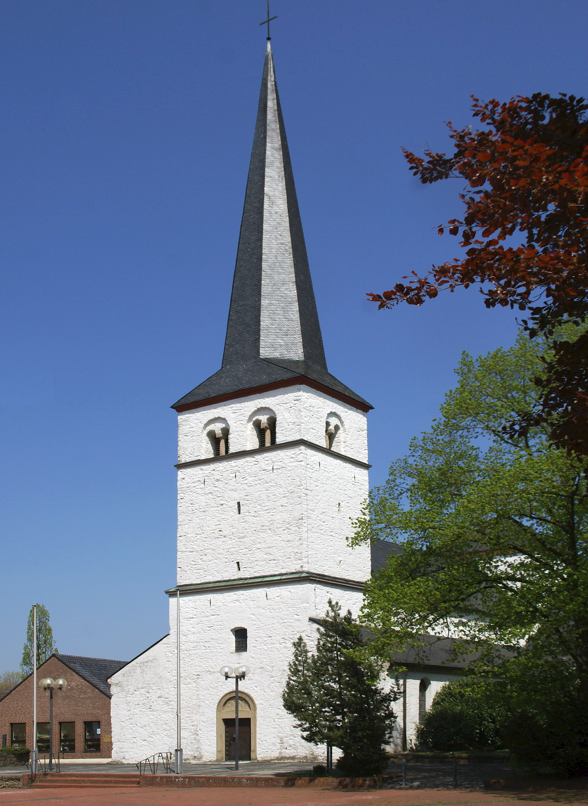 Catholic church of St. Stephanus in Flamersheim